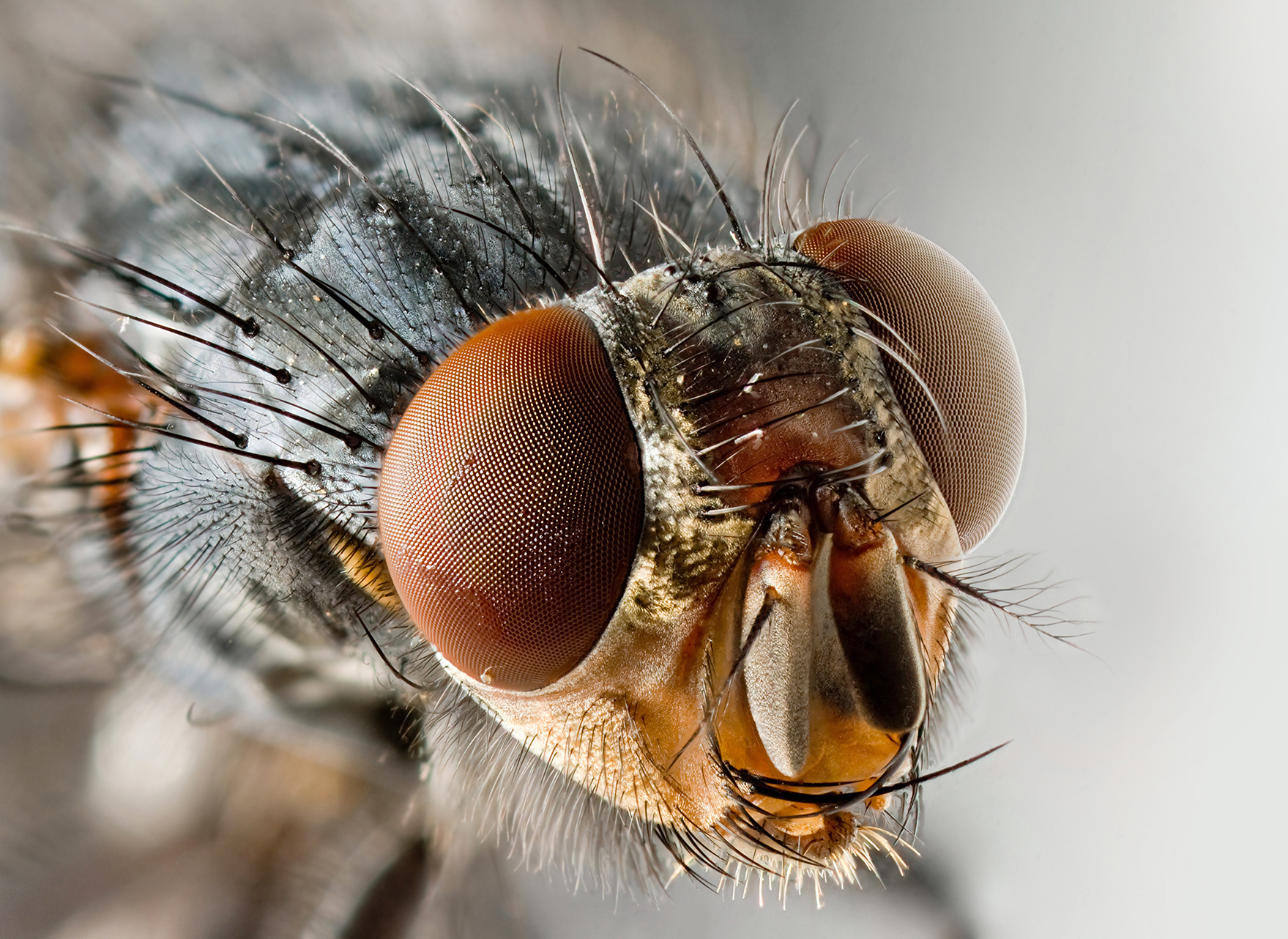 Blowfly, (Calliphoridae) female, Austin's Ferry, Tasmania, Australia